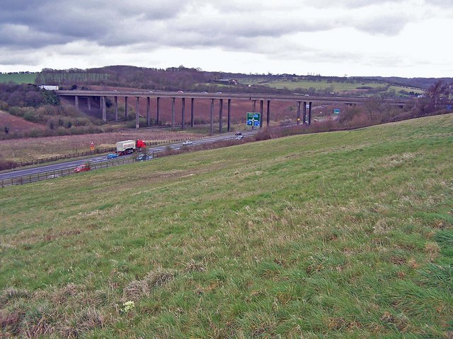 M2 viaduct over Stockbury Valley The busy A249 runs beneath the motorway.